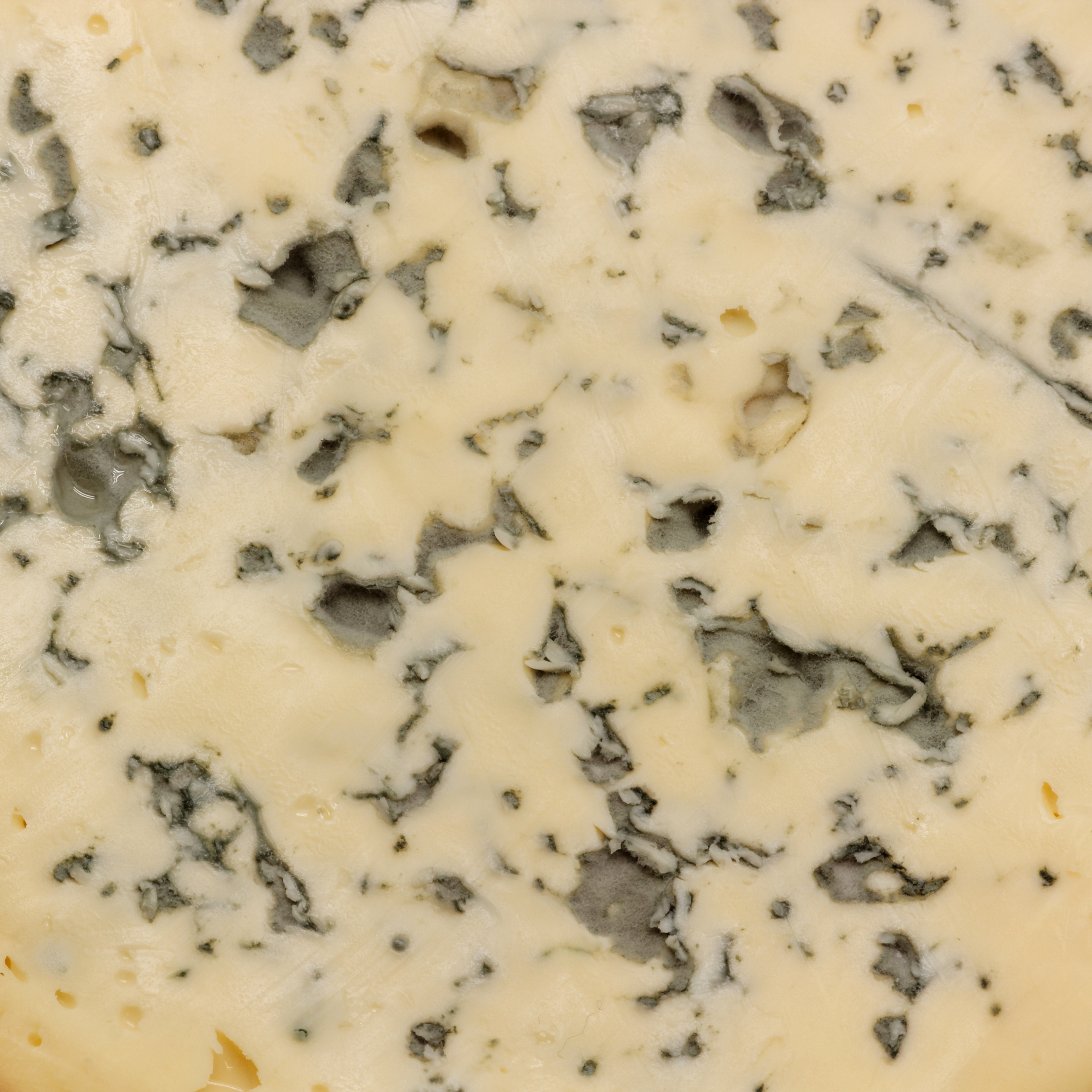 Fourme d'Ambert (cow's milk cheese)